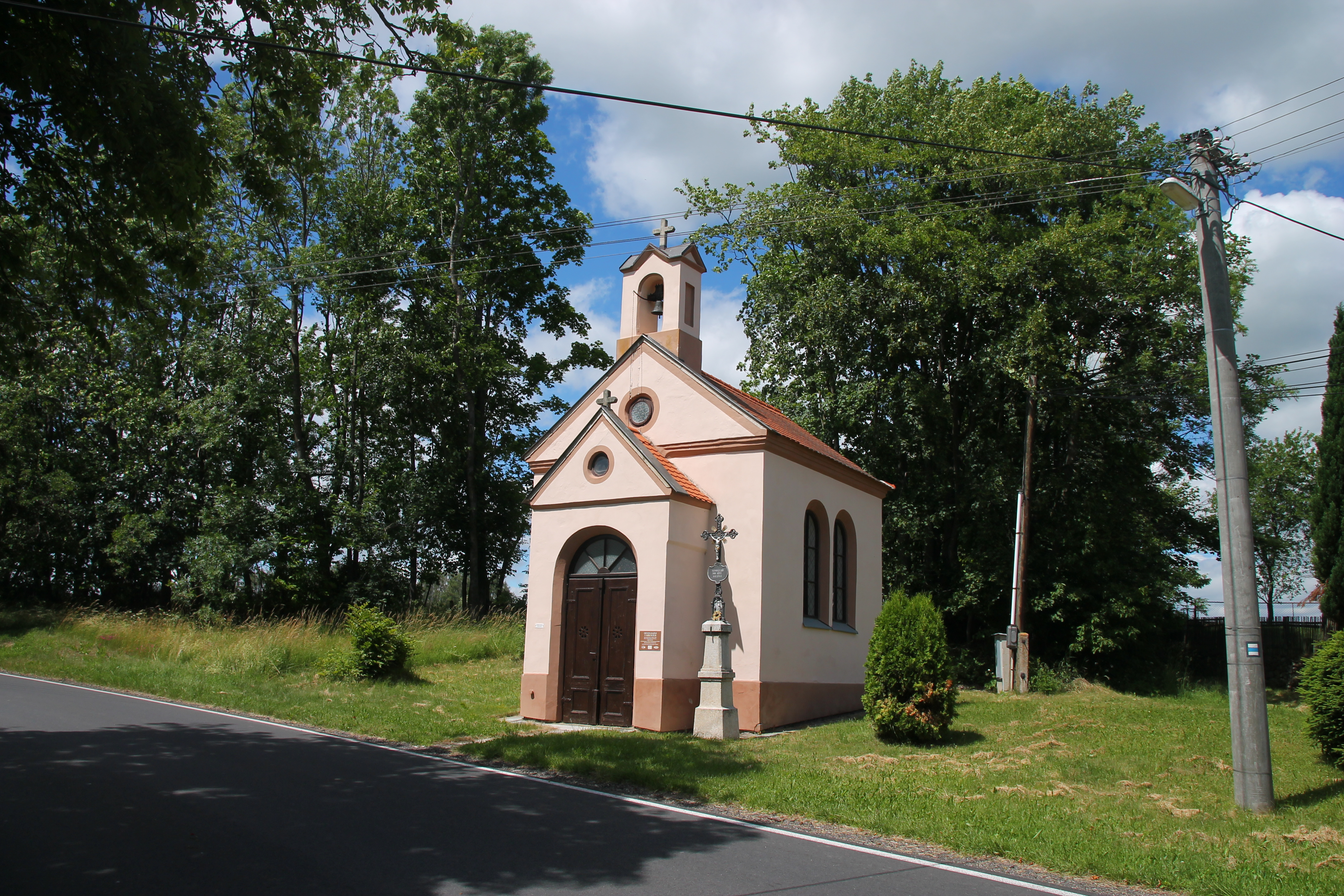 Miřetice, Vacov